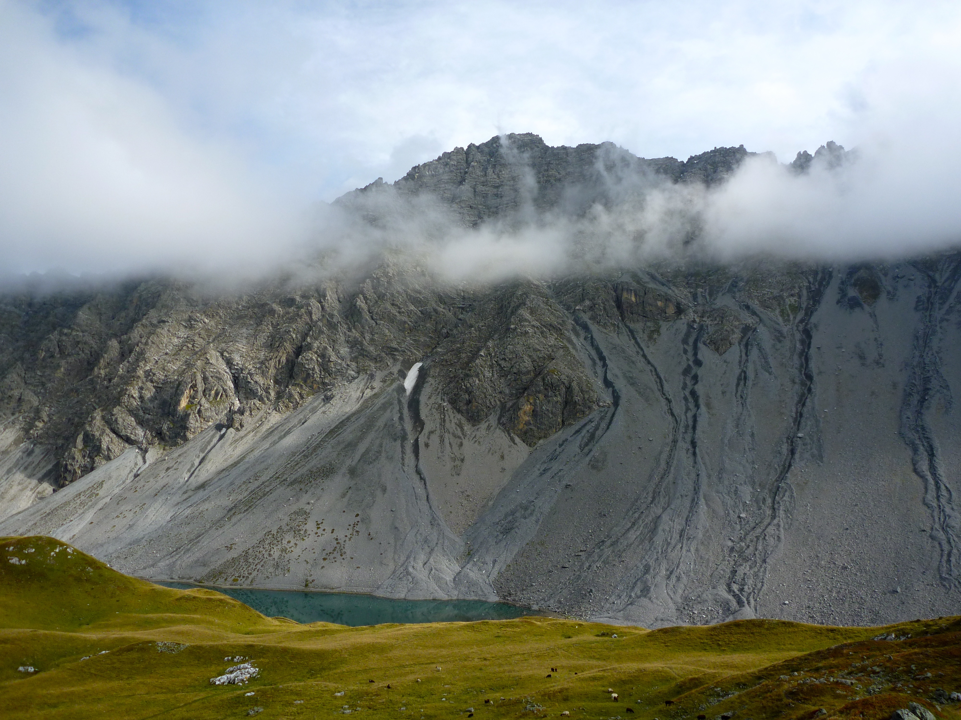 Aelpliseehorn at Arosa/Switzerland